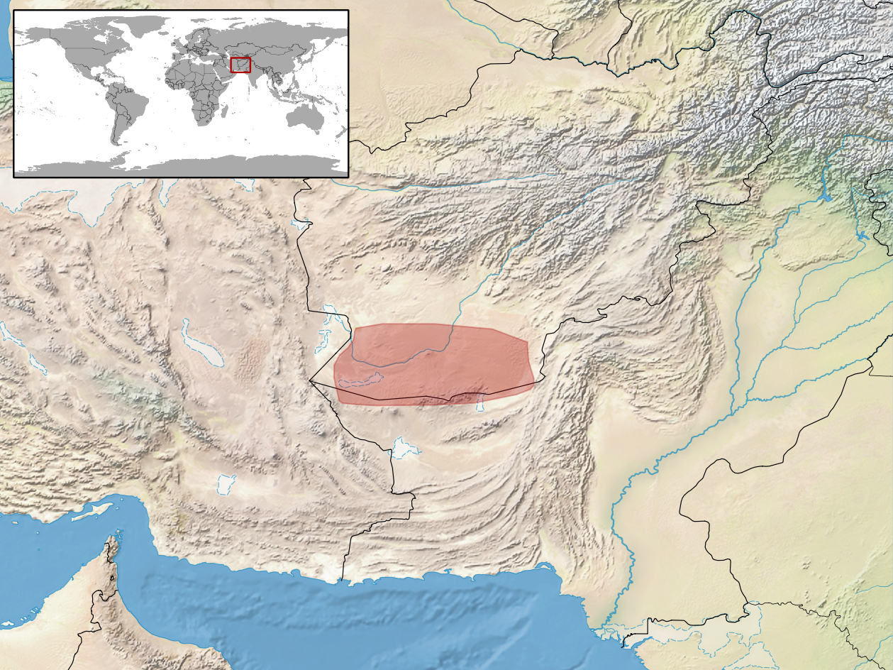 geographic distribution of Phrynocephalus luteoguttatus (Native: Afghanistan; Pakistan)